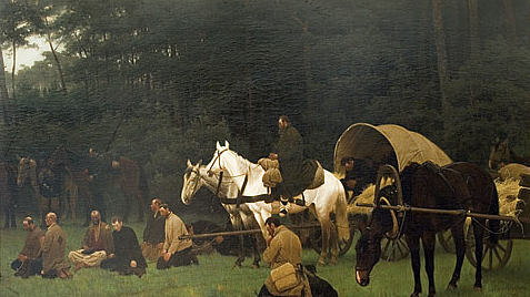 Deportation on Syberia